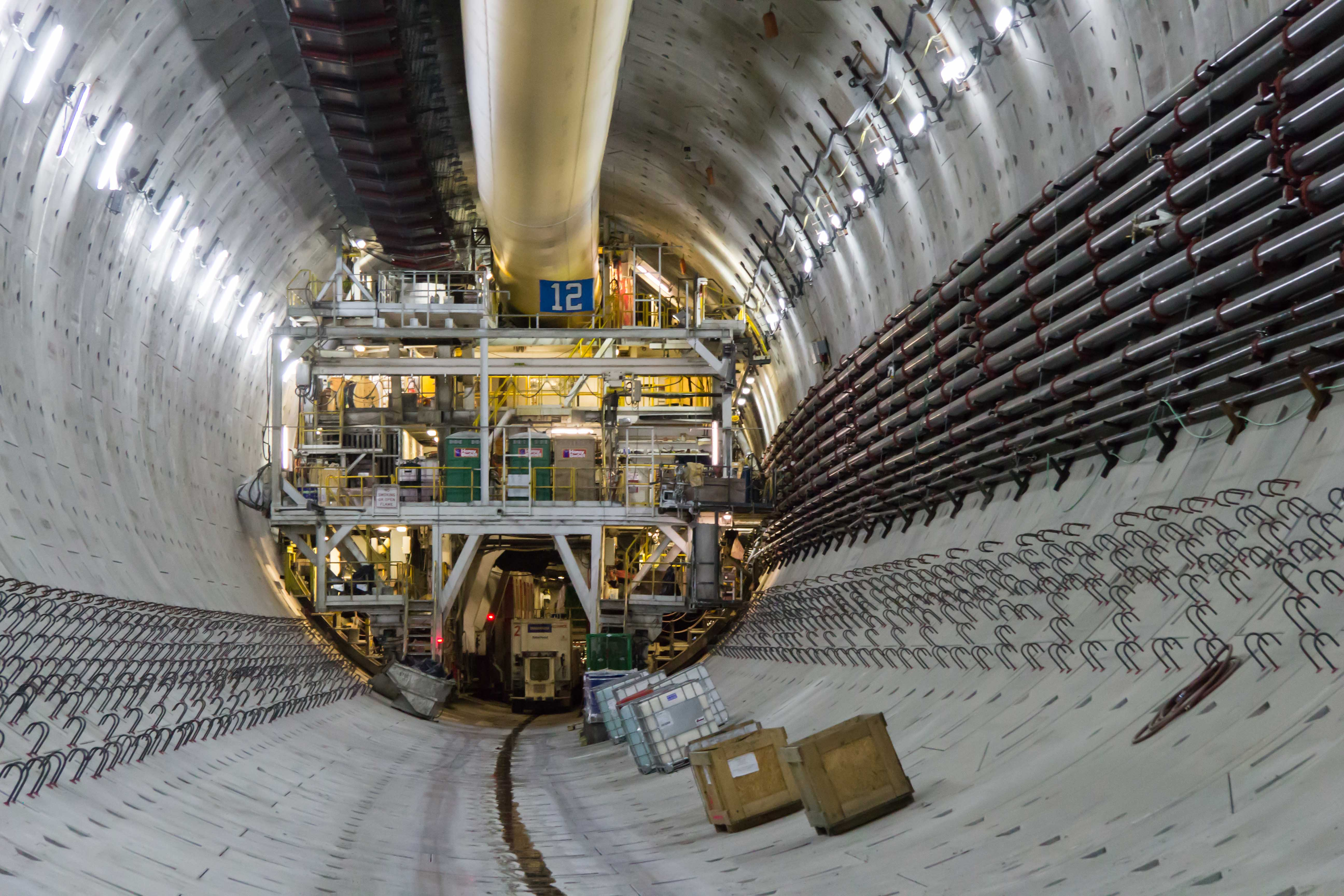 CMs Burgess and Juarez toured progress of Bertha on 1/6/17. The tunnel boring machine was underneath Bell St in Belltown.